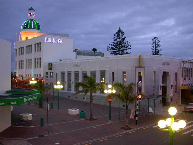 A typical view of The T & G Dome in Napier, New Zealand, at night. New Zealand Historic Places Trust Register number: 183.